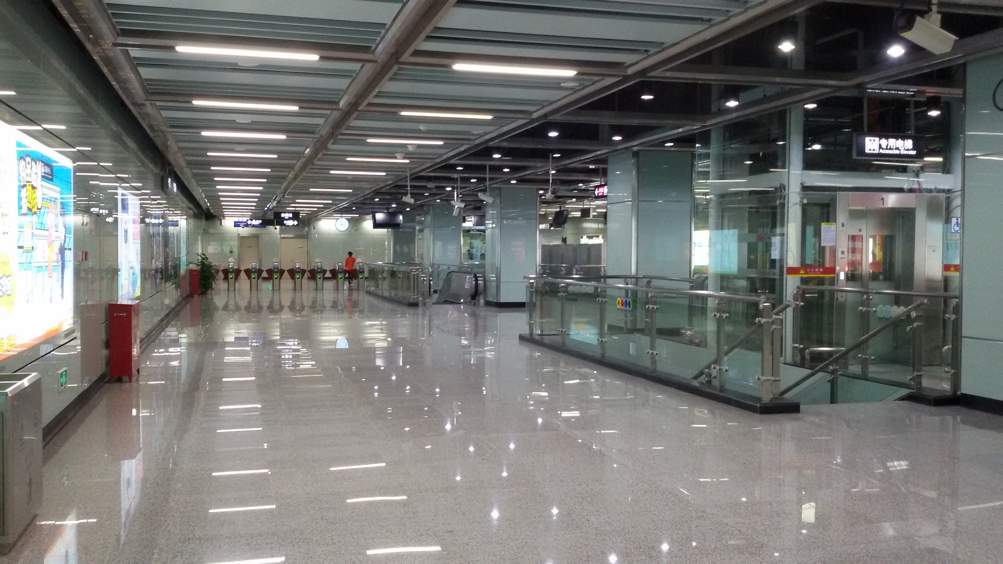 Station Concourse for Luogang Station in Guangzhou Metro .